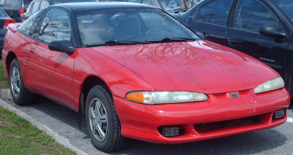 1992-1994 Eagle Talon photographed in Montreal, Quebec, Canada.